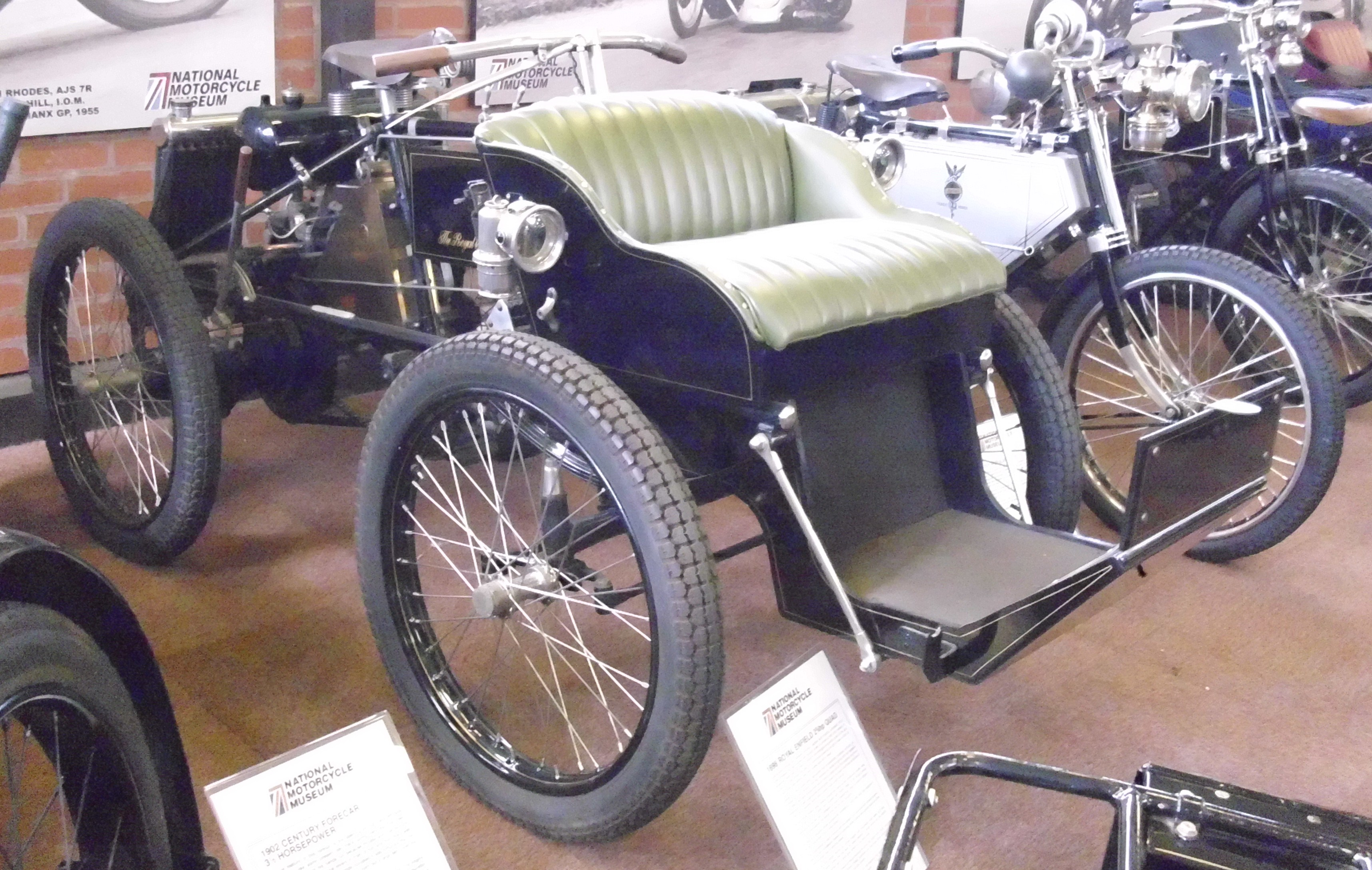 Royal Enfield 2 ¾ HP Quad Quadricycle Forecar